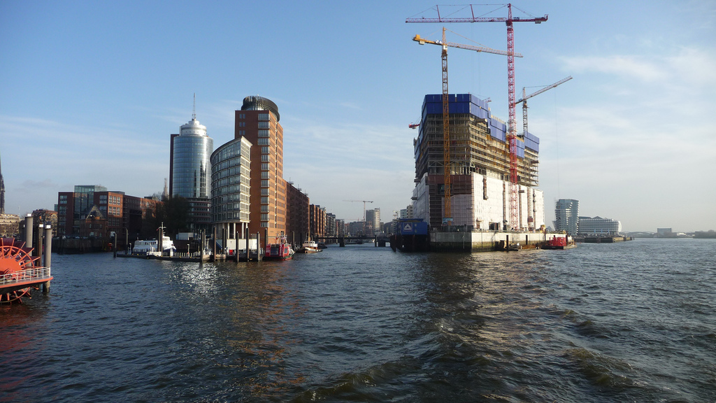 The following is the author's description of the photograph quoted directly from the photograph's Flickr page. "hafencity "